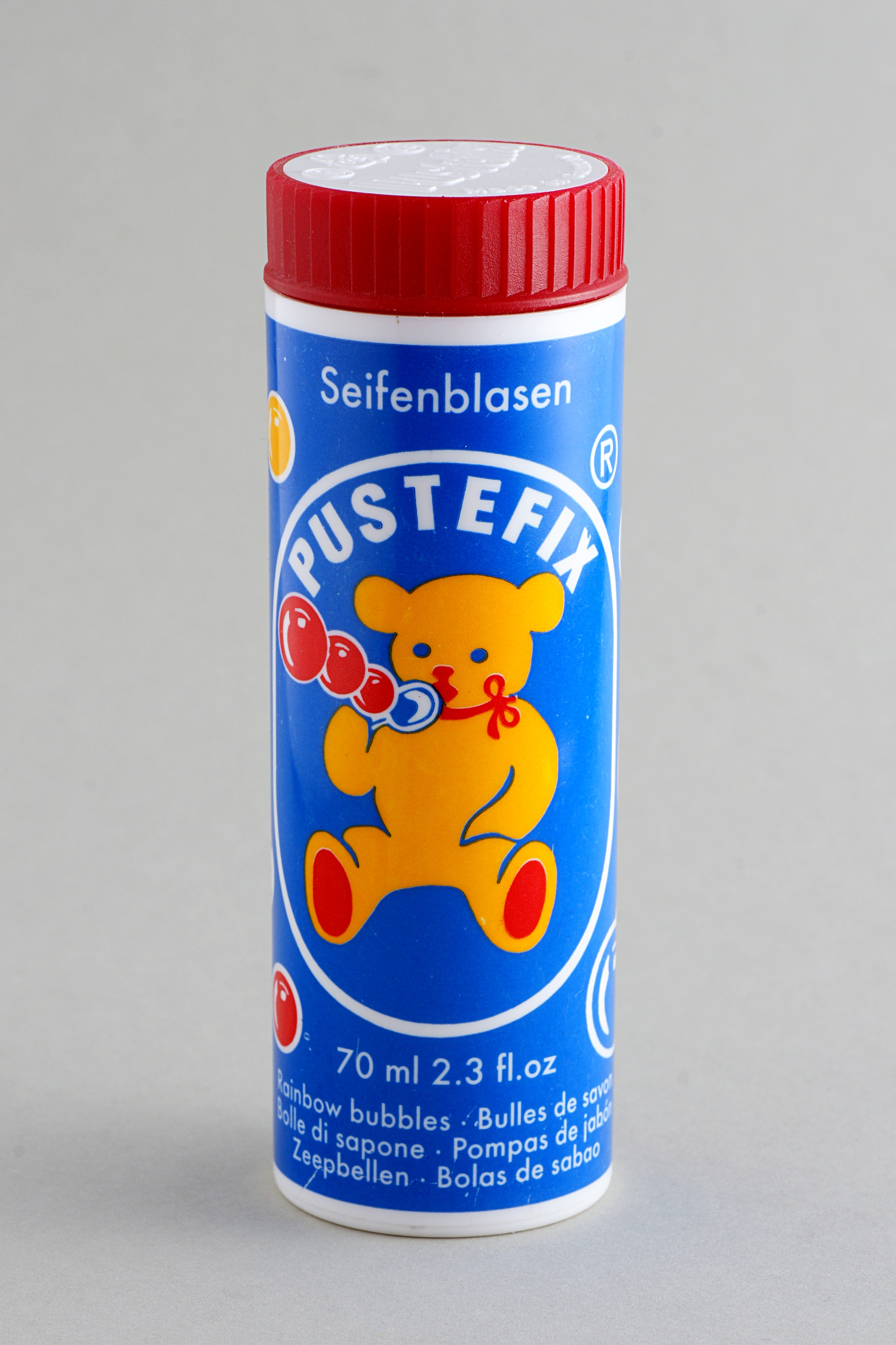 Pustefix soap bubble solution.